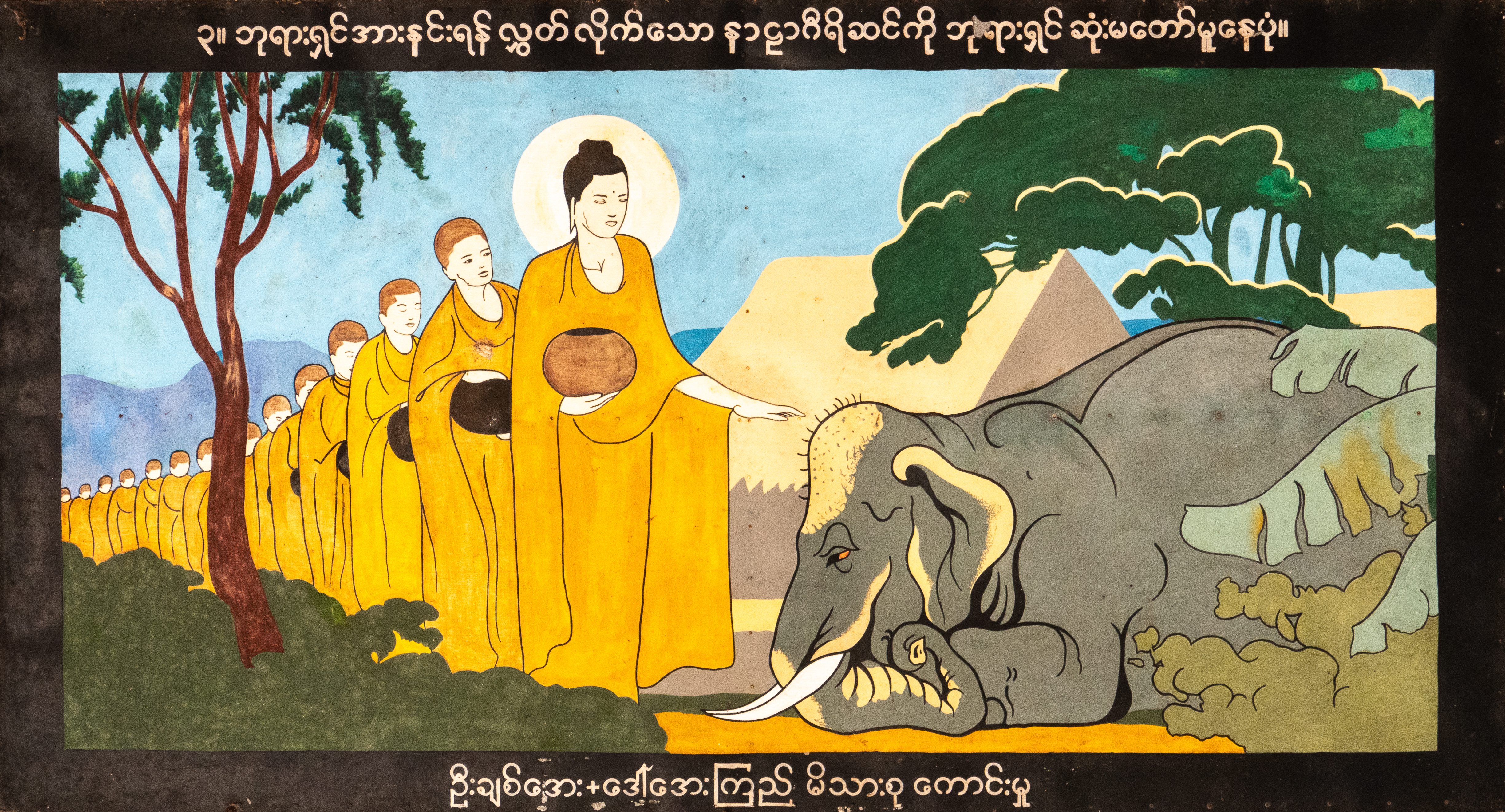 Artwork on South Walkway into Uzina Pagoda